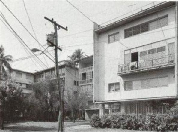 Mario Romañach_Edificio de Guillermo Alonso, 1950